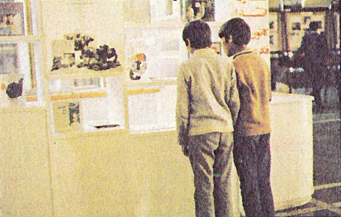 Bookshop of Kanoon-e Paravaresh at airport Mehrabad, Tehran, Iran